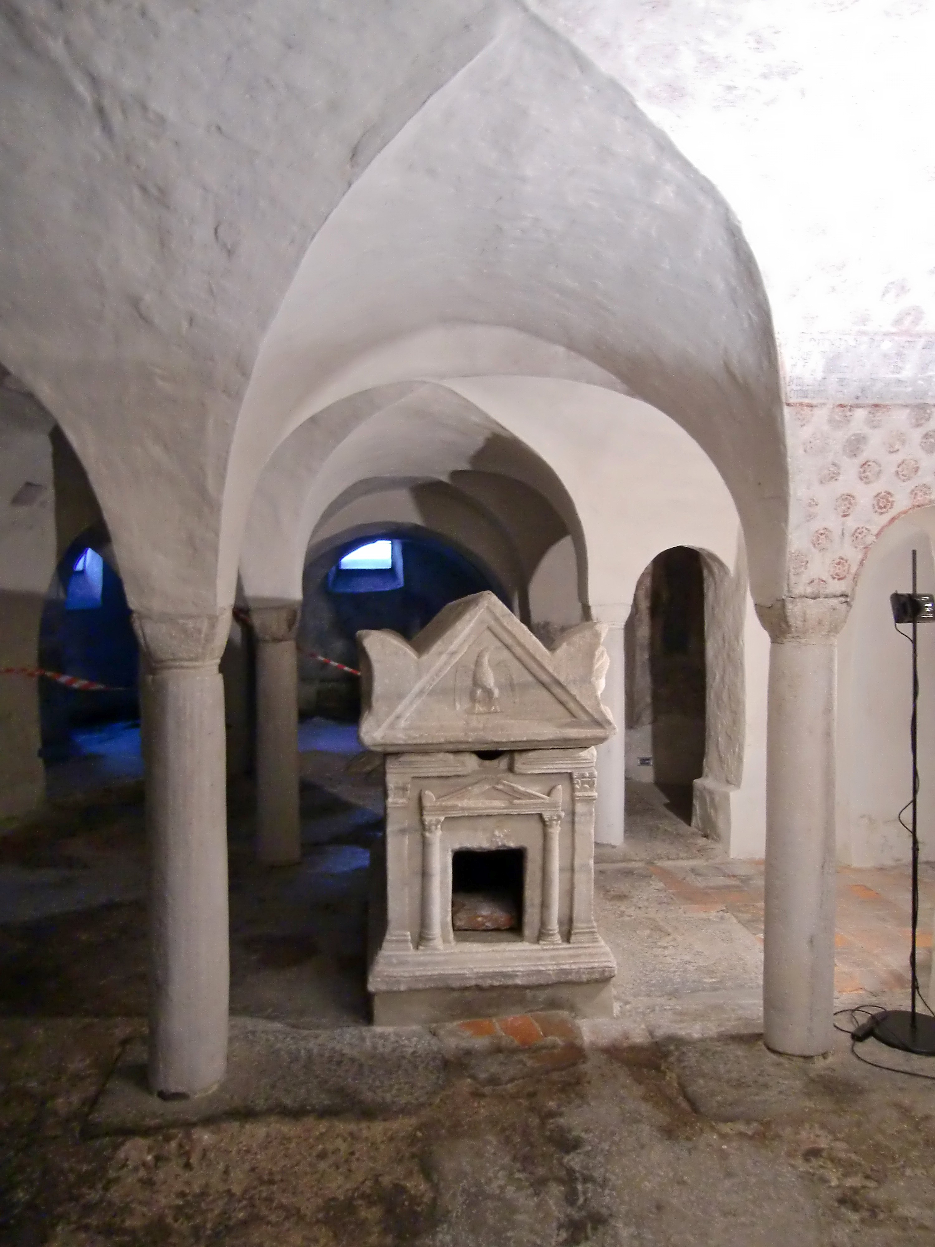 Duomo di Ivrea, View of the crypt, Ivrea, Turin, Italy